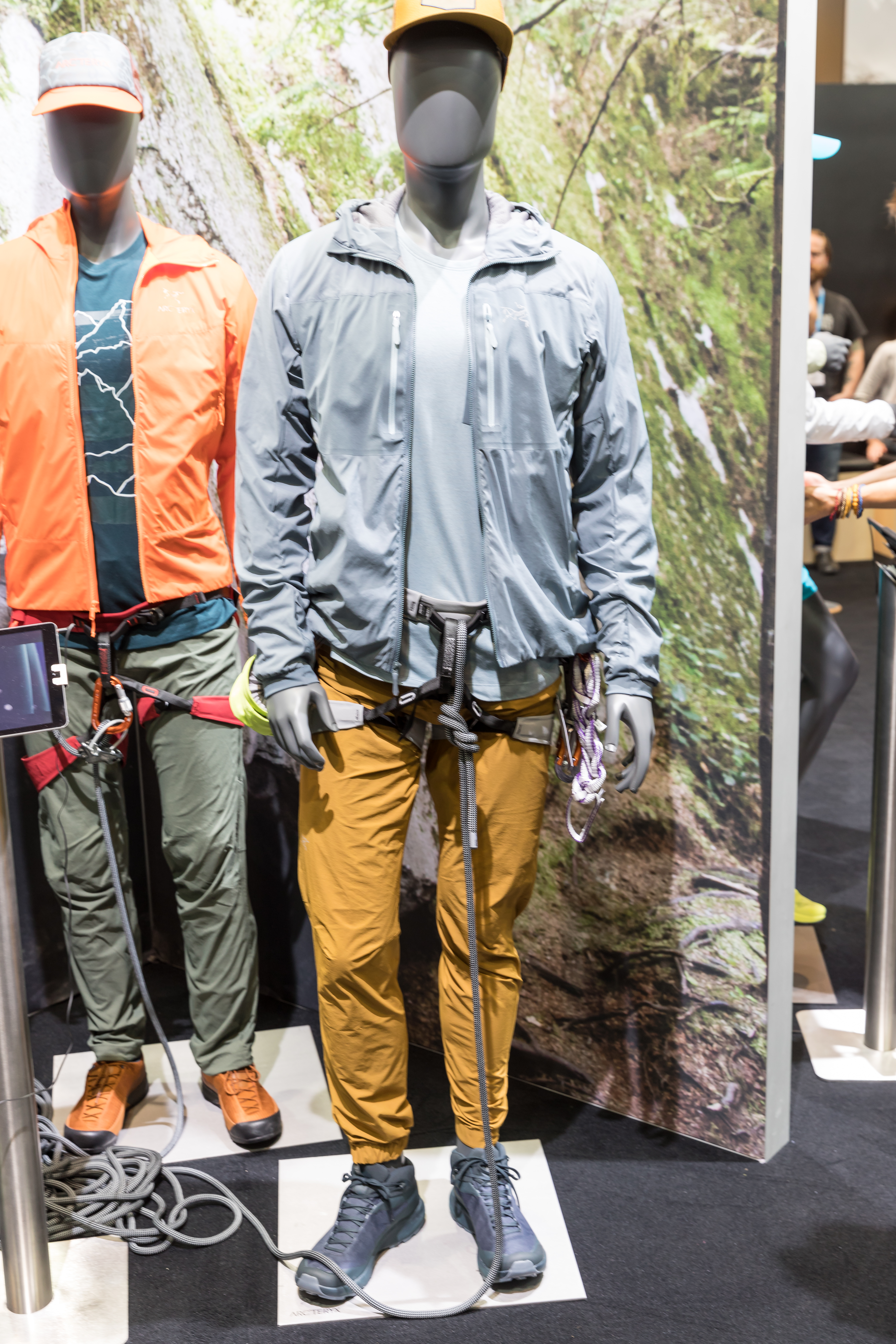 OutDoor 2018